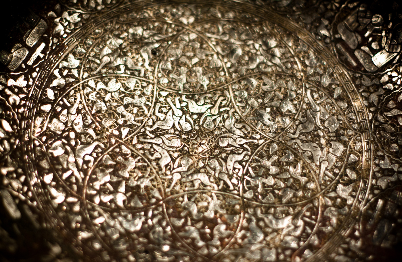 Detail of bronze display dish, inlaid with silver with figures of winged sphinxes, late 13th century from Iraq, Keir Collection, now in the Pergamon Museum of Islamic Art in Berlin Note: DanieleCivello very kind changed the CC licensing of this image after a private request from me. The image is slightly cropped to remove a small watermark.